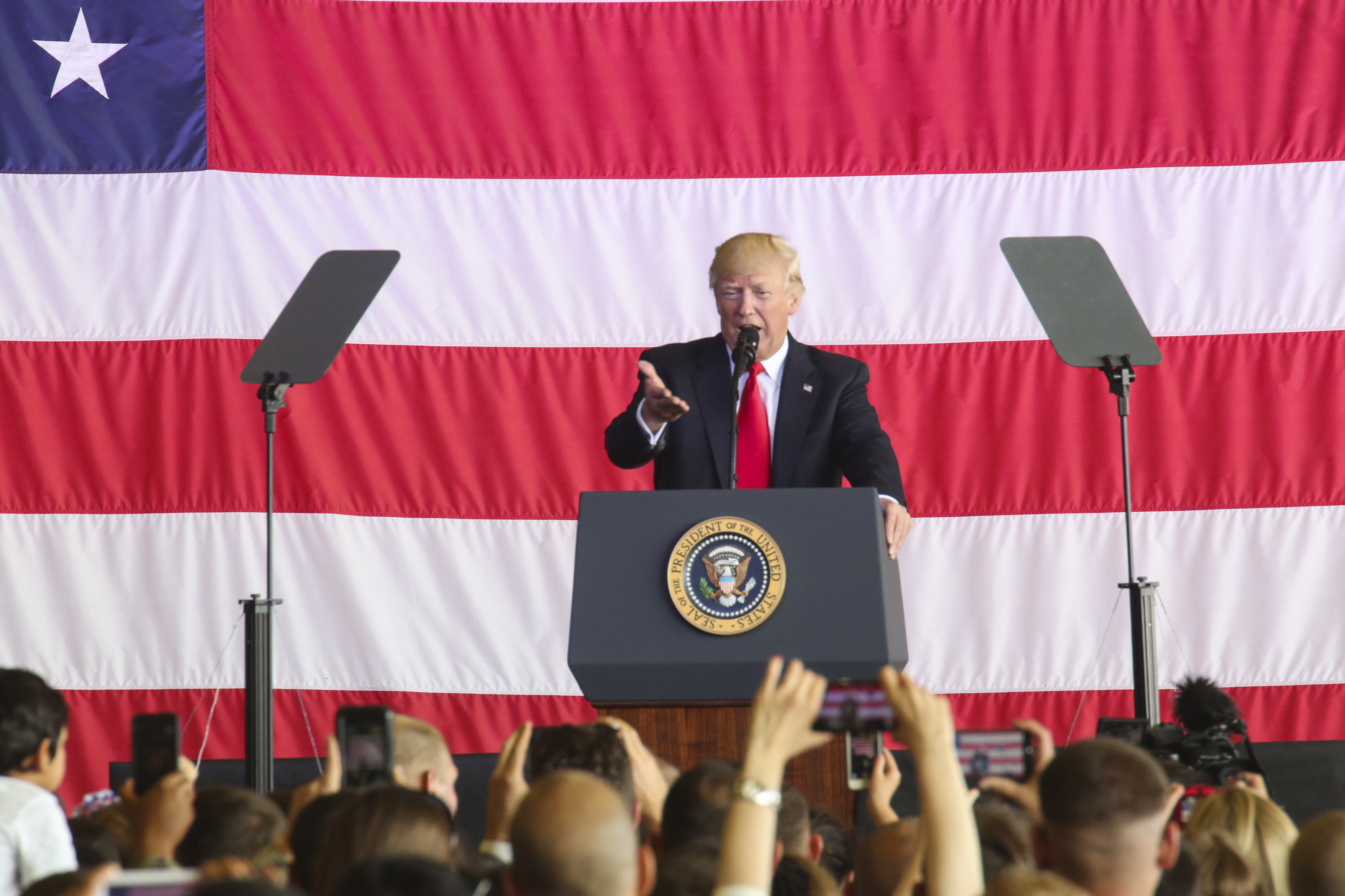 President Donald Trump speaks to U.S. service members and their families during his first overseas speech to the troops at Naval Air Station Sigonella, Italy, May 27, 2017. Trump traveled to Sicily in order to attend the G7 Summit and meet with other world leaders, to include Italian Prime Minister Paolo Gentiloni. NASSIG is a strategically located base capable of supporting an array of operations which houses sailors, airmen, soldiers and Marines with Special Purpose Marine Air-Ground Task Force – Crisis Response – Africa. (U.S. Marine Corps photo by Sgt. Samuel Guerra/Released)